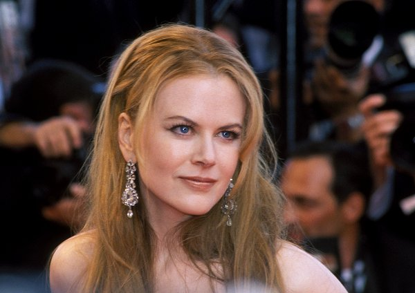 Derivative Work. Nicole Kidman at Cannes 2001